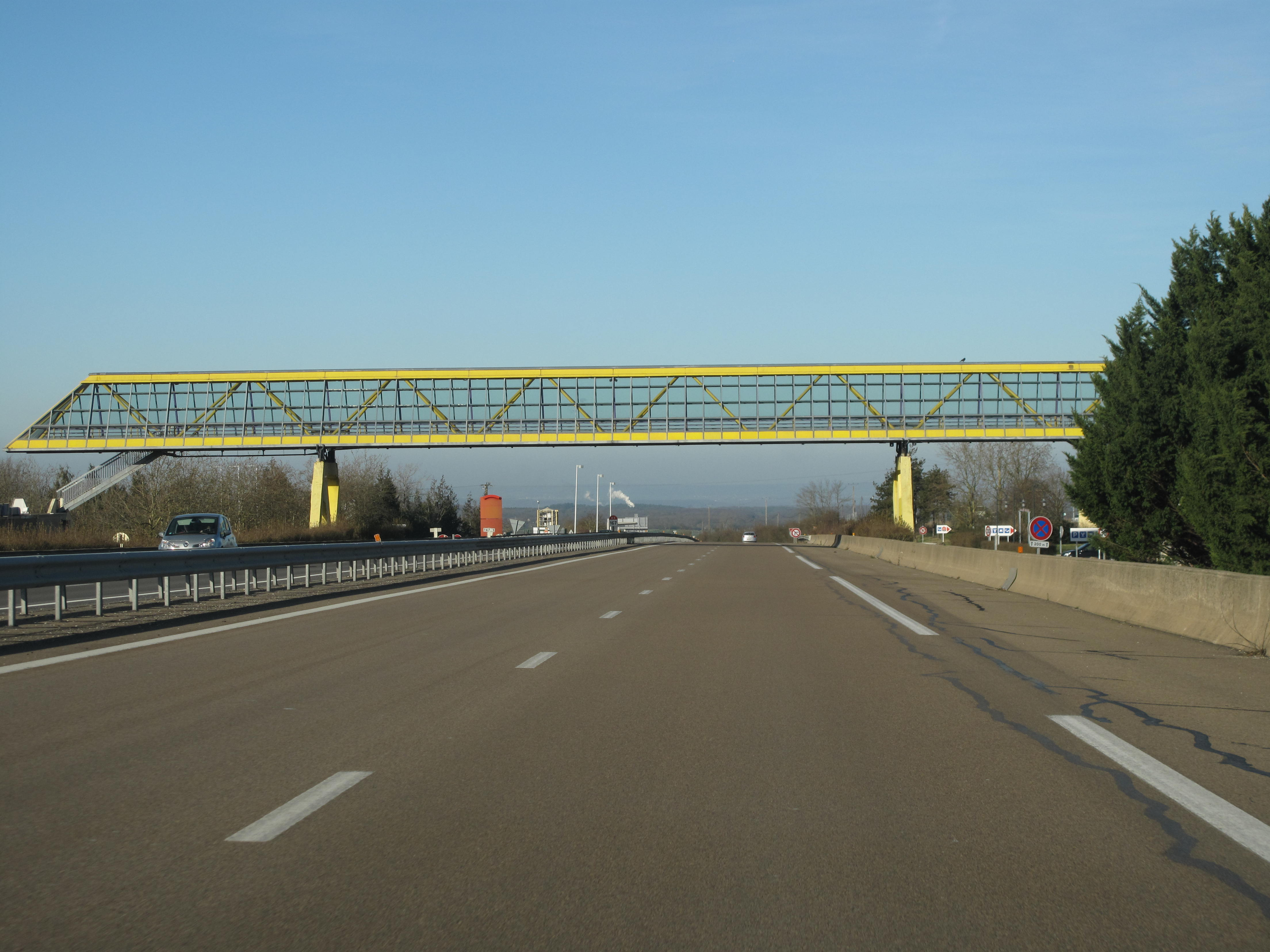 The gateway of the rest area of Venoy on French highway A6. Looking to the north.